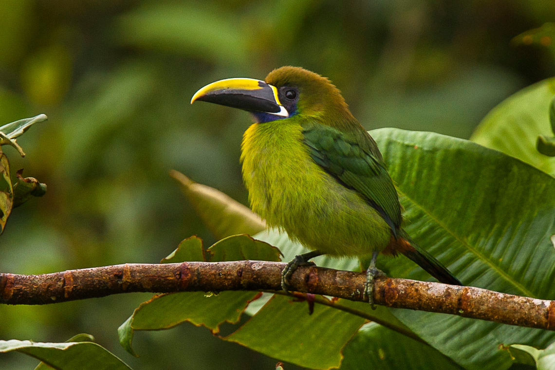 Blue-throated Toucanet - Panama_H8O8999